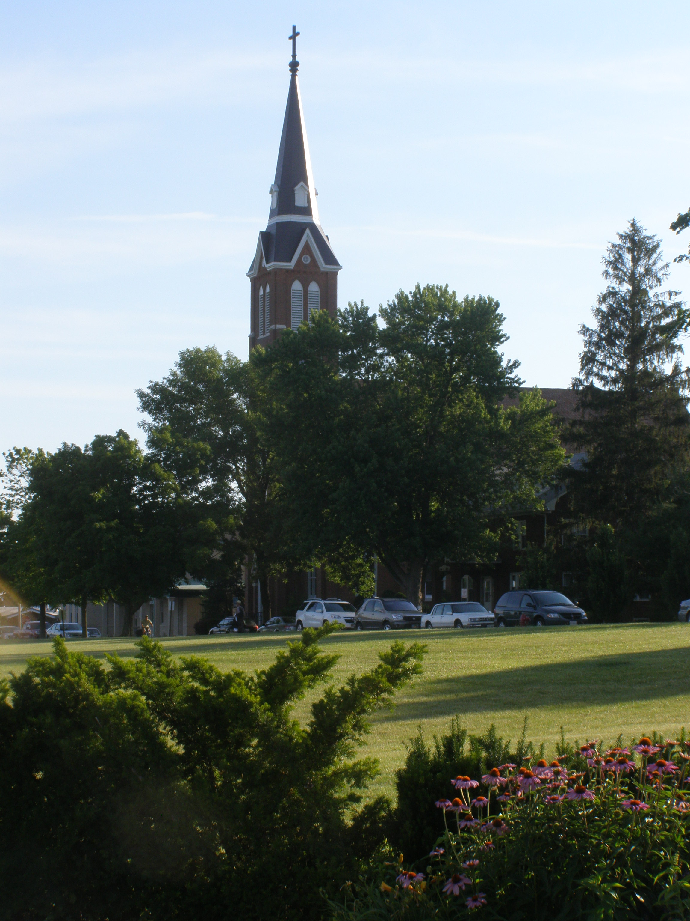 Scenes in the town of Nauvoo, Illinois. Church of St. Peter and St. Paul.